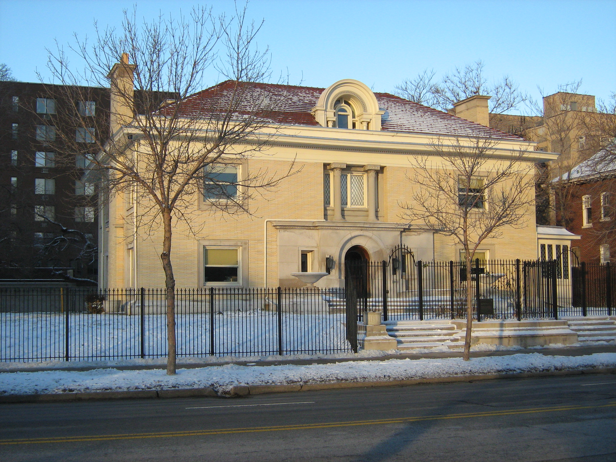 Edwin M. Colvin House, 5940 N Sheridan Rd, Chicago, IL 60660